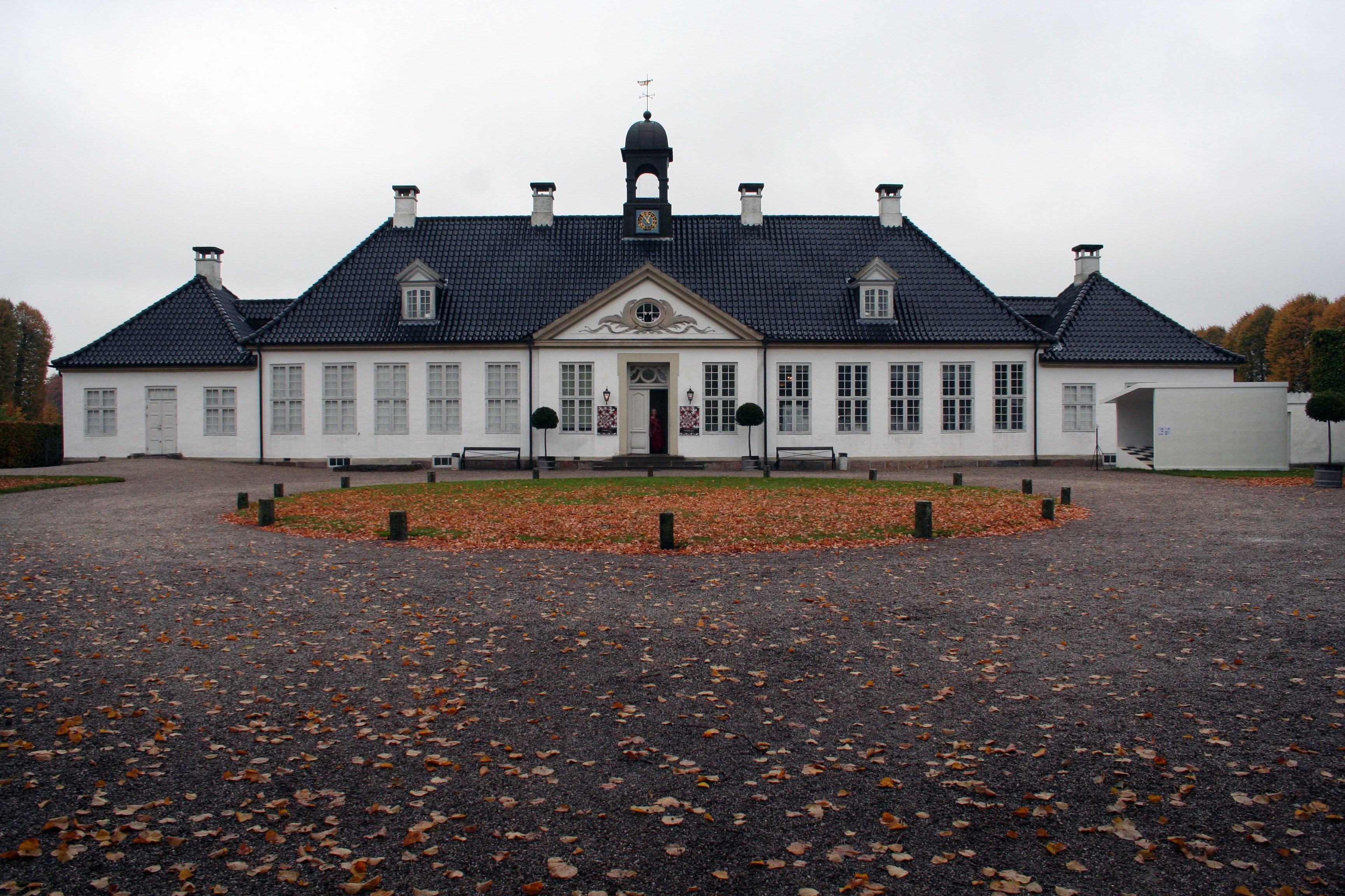 The picture shown the main building of Gammel Holtegaard. At that time Gl. Holtegaard had an exhibition on Escher. The little shelter in the right side is a part of the exhibition